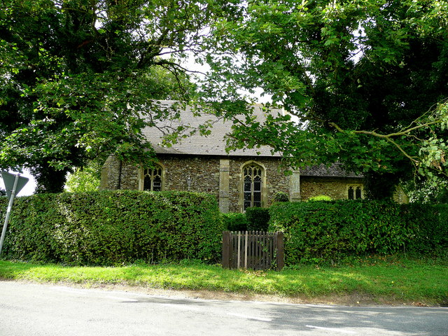 St. James' The small church of Little Raveley is now a private dwelling.